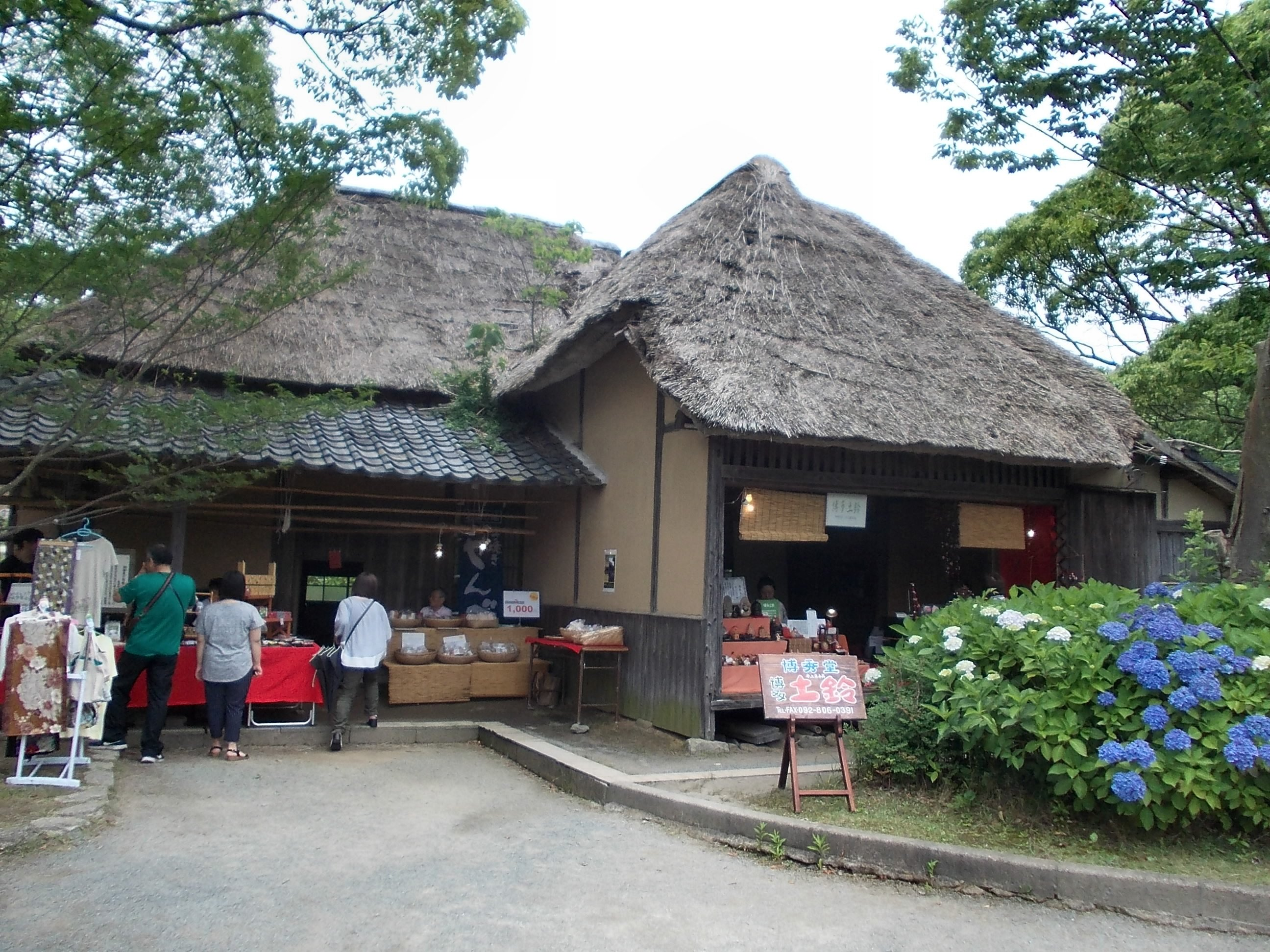 Traditional Japanese style houses in Miyajidake Shrine, Fukutsu, Fukuoka, Japan